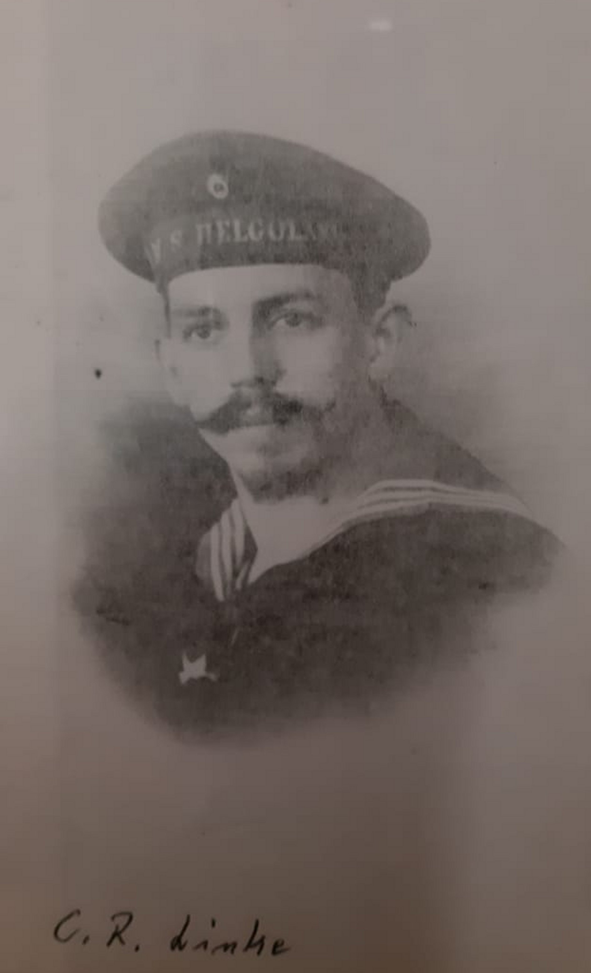 Carl Richard Linke was a sailor in the German Imperial Navy on SMS Helgoland during WWI